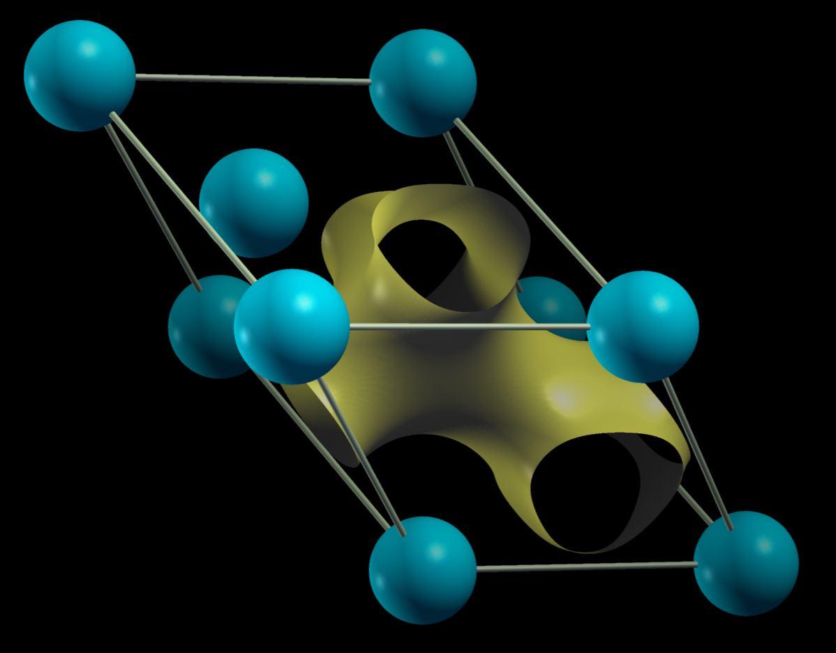 Isosurface of the square modulus of Bloch wave in Silicon corresponding to Γ point and lower valence band.